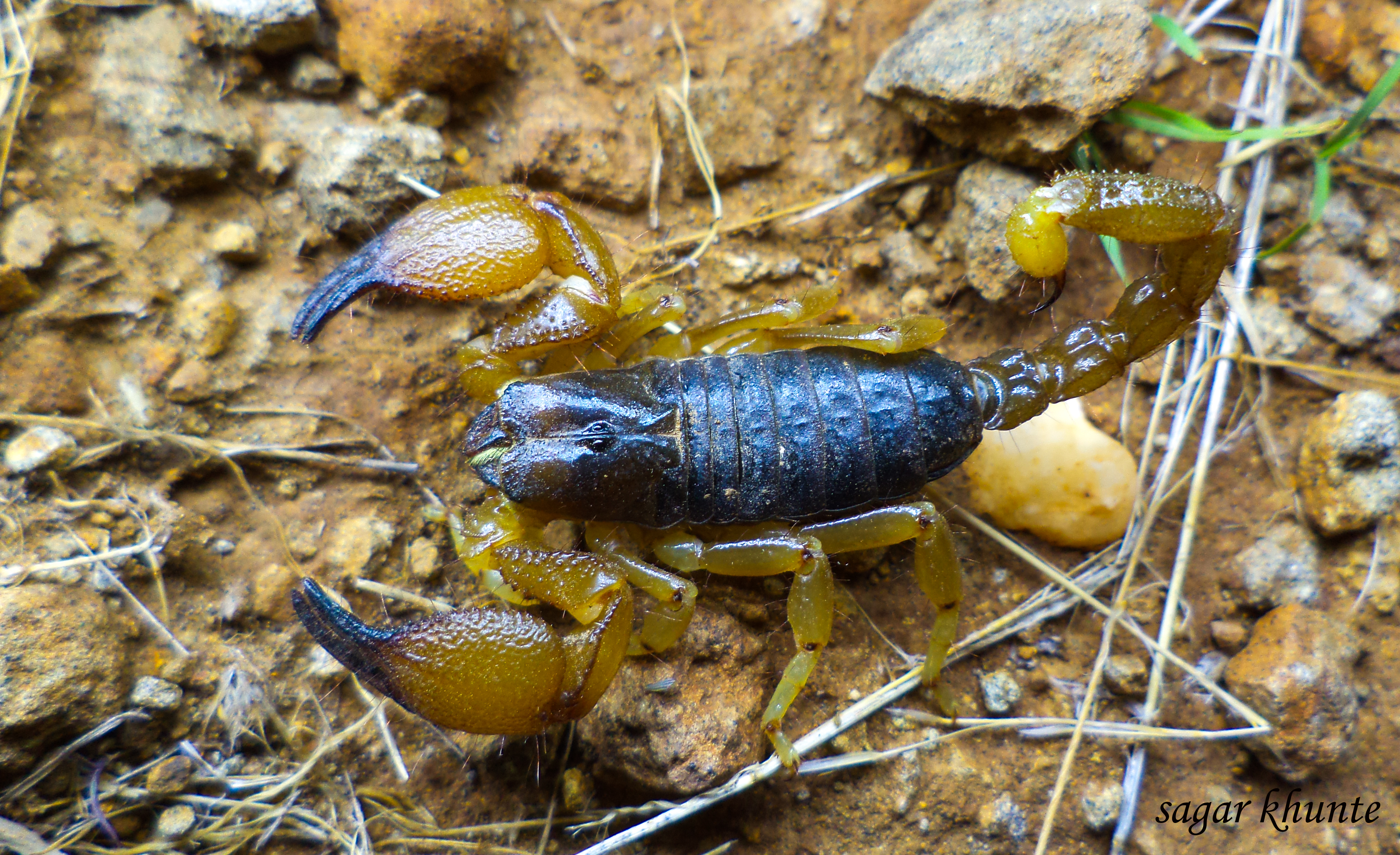 heterometrus xanthopus